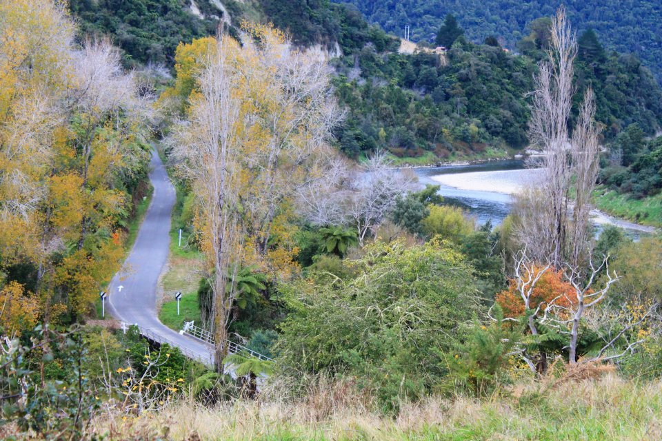 The Road and Whanganui River at Pipiriki